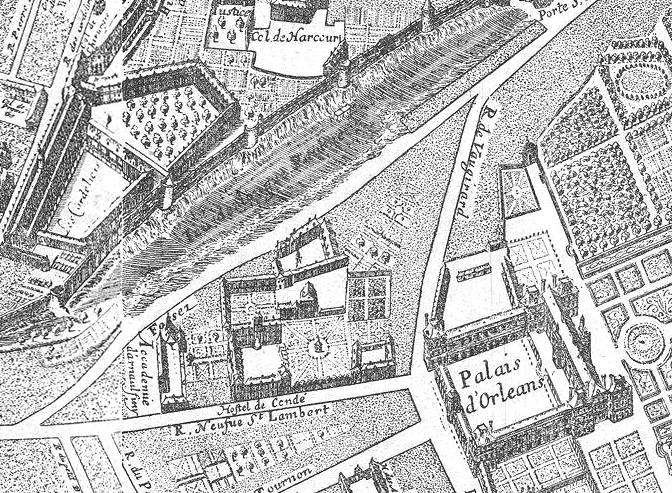 The Hôtel de Condé on the 1652 Gomboust map of Paris